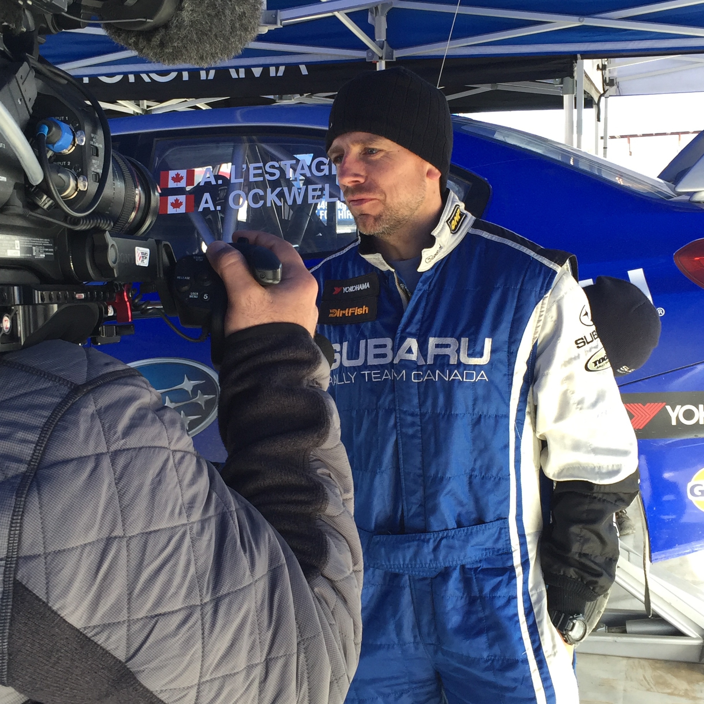 Photo de profil Antoine L'Estage